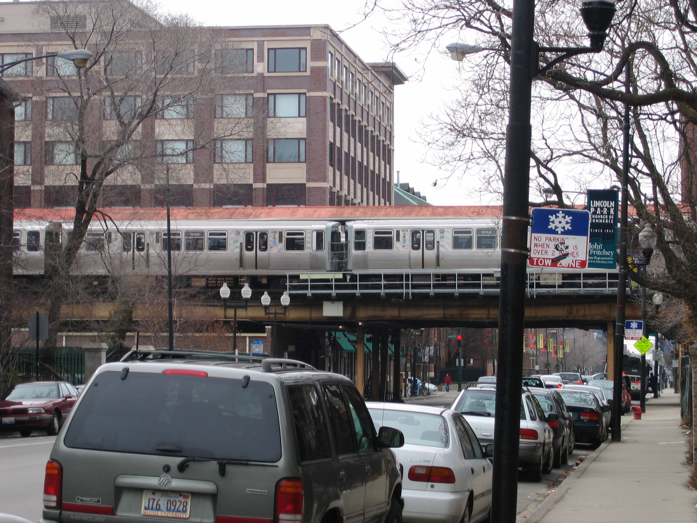 Train stopped at the Fullerton CTA station, in Lincoln Park (Chicago).